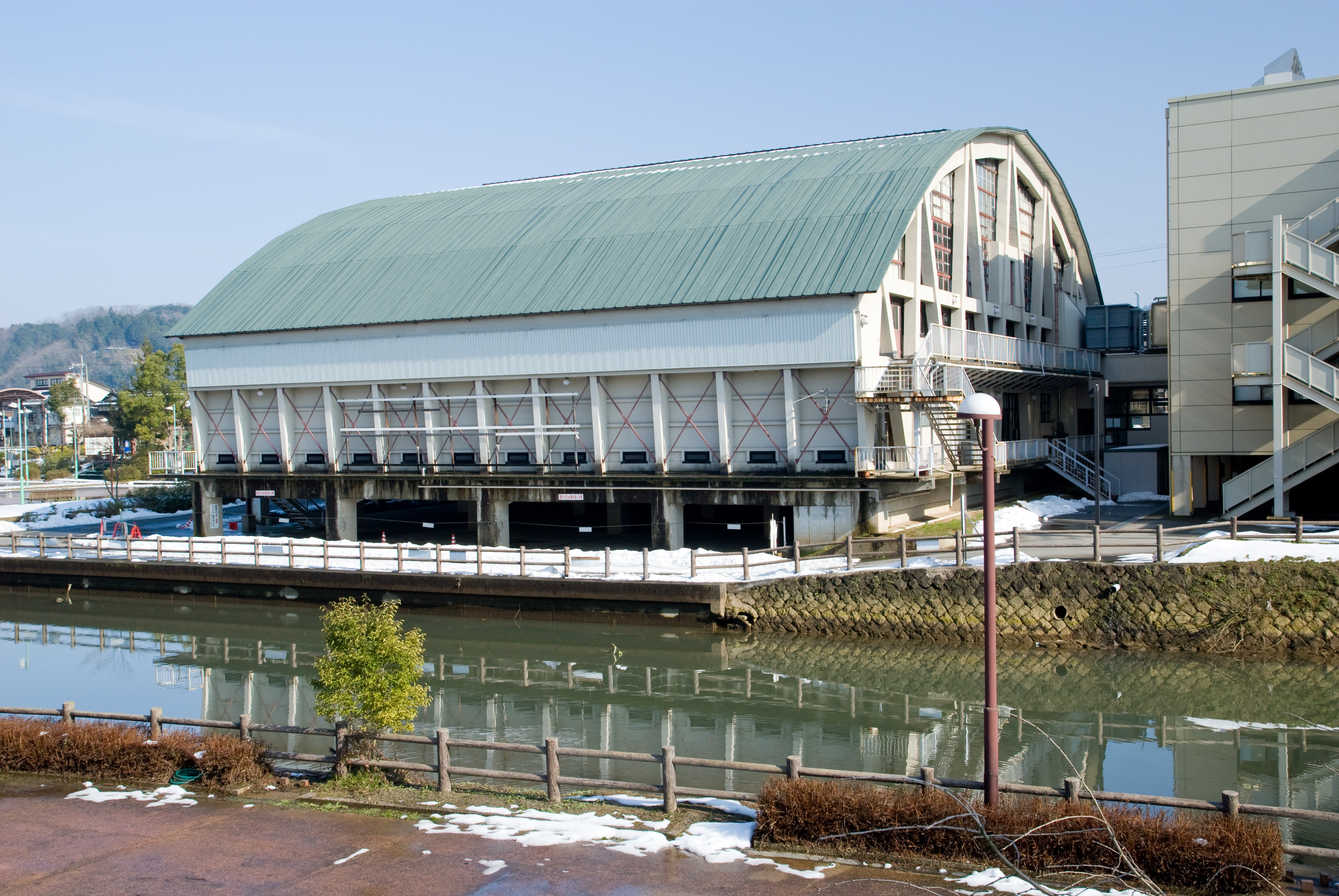 Toyooka Civic gymnasium in Toyooka,Hyogo Prefecture,Japan.